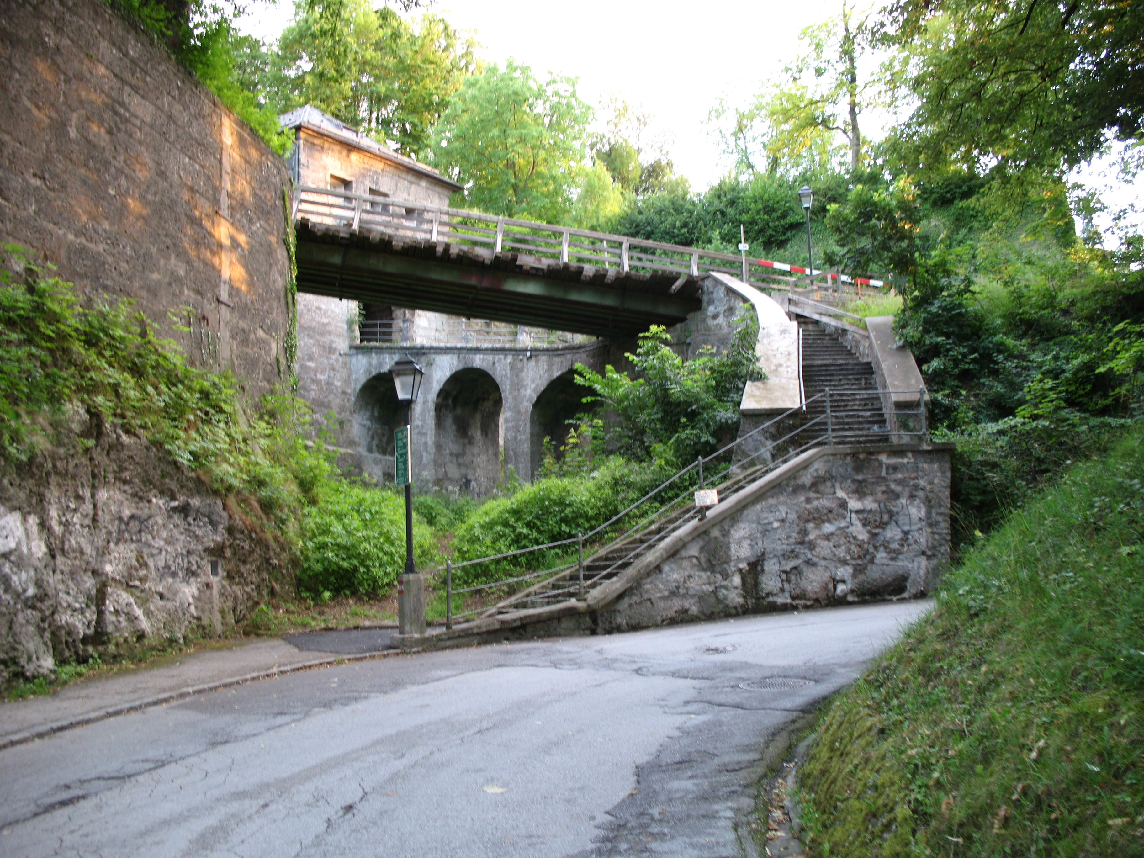 Monk Hill, Salzburg, Austria